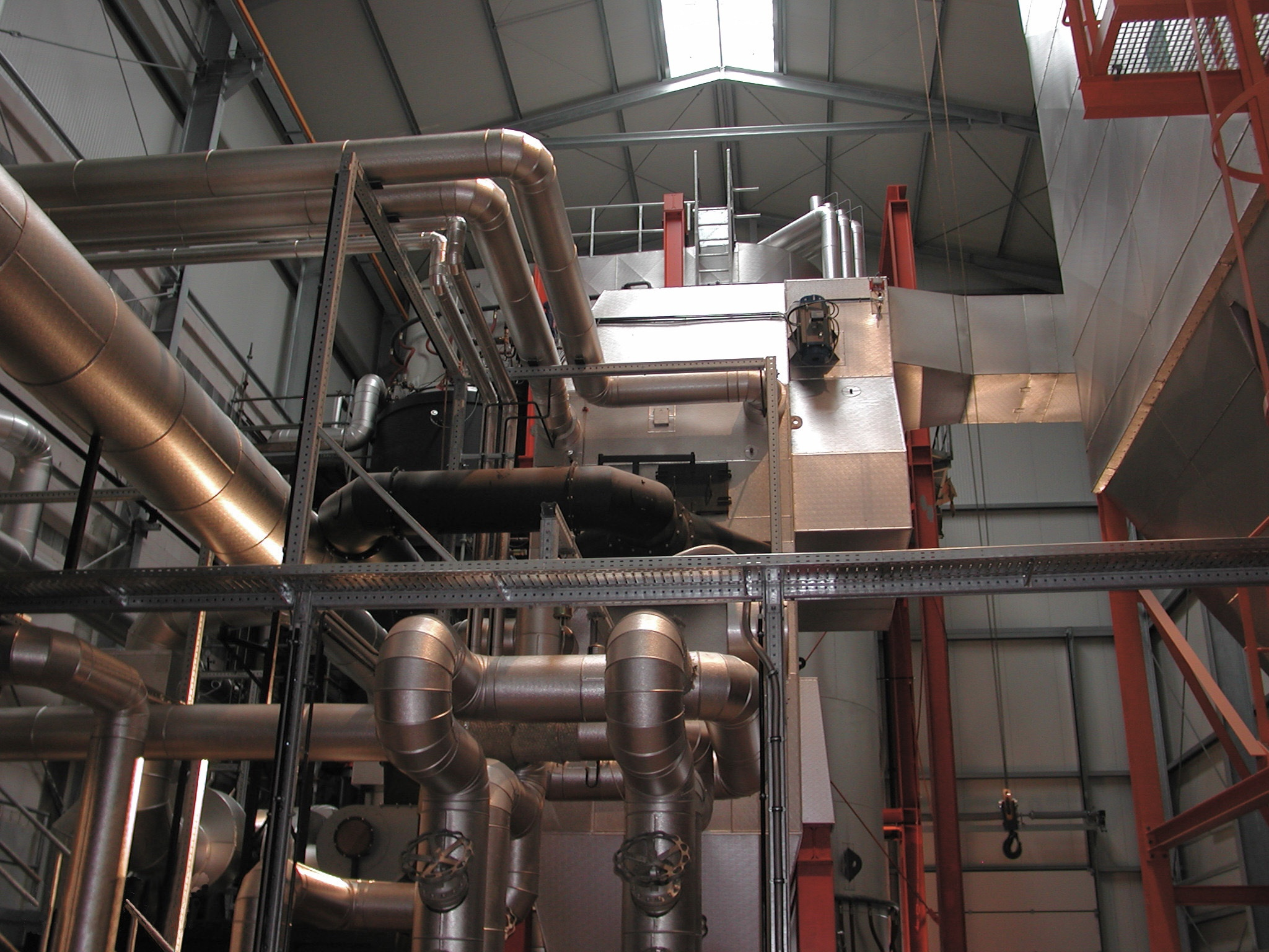 Internal view of a biomass-ORC-power plant located in Schleswig/Holstein in Germany.